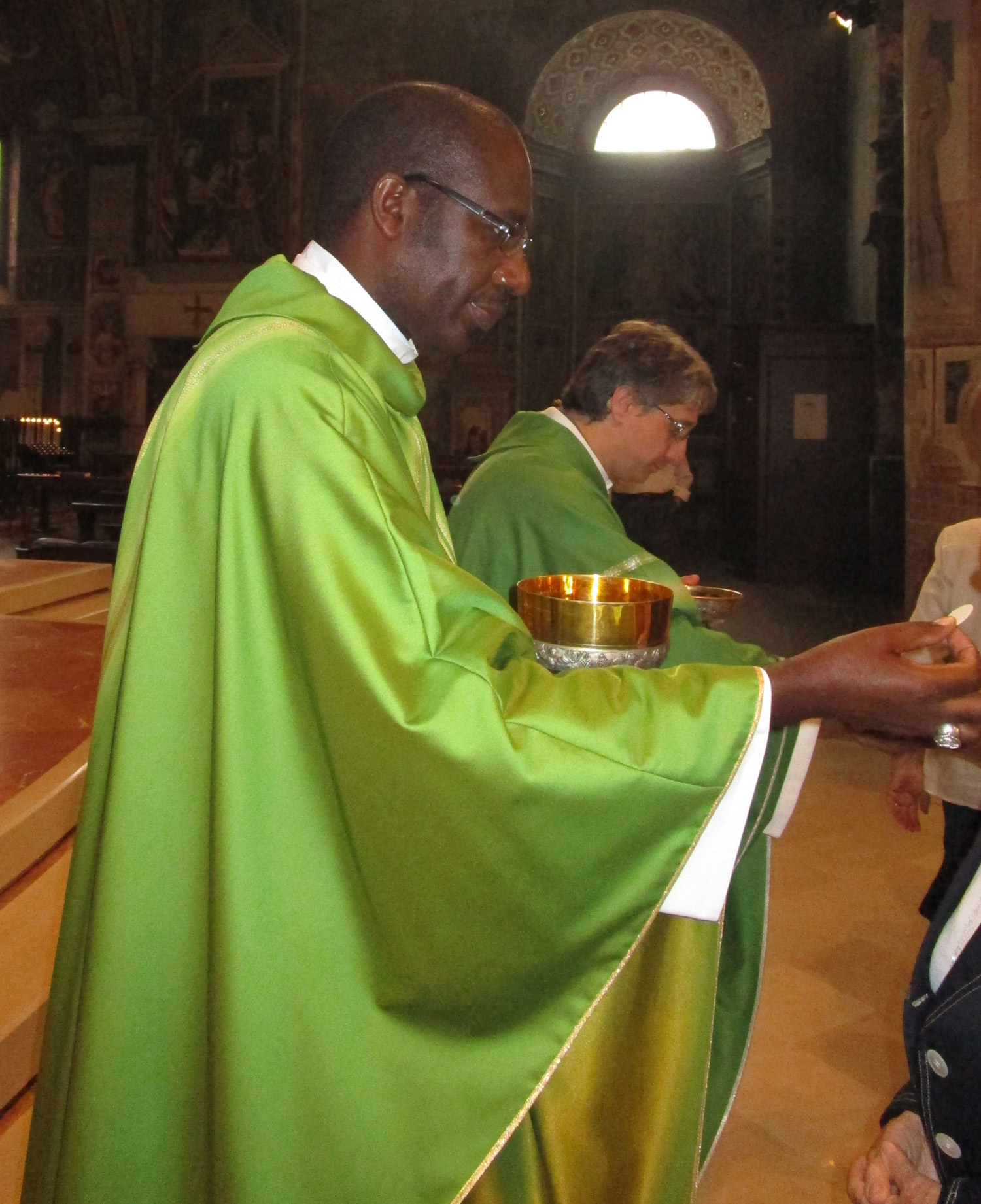 Archbishop Imbamba during a mass in Lodi, Aug., 23rd, 2015